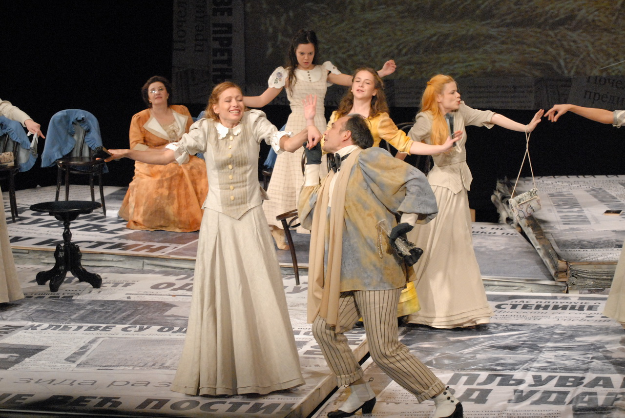 "Was There the Prince's Dinner" written and directed by Vida Ognjenović, Drama of the SNT, Novi Sad, 2008/09; Sanja Ristić Krajnov, Aleksandar Gajin Srpski (latinica): "Je li bilo kneževe večere", napisala i režirala Vida Ognjenović; Drama SNP-а, 2008/09; Sanja Ristić Krajnov, Aleksandar Gajin Српски (ћирилица): "Је ли било кнежеве вечере", написала и режирала Вида Огњеновић; Драма СНП-а, 2008/09; Сања Ристић Крајнов, Александар Гајин